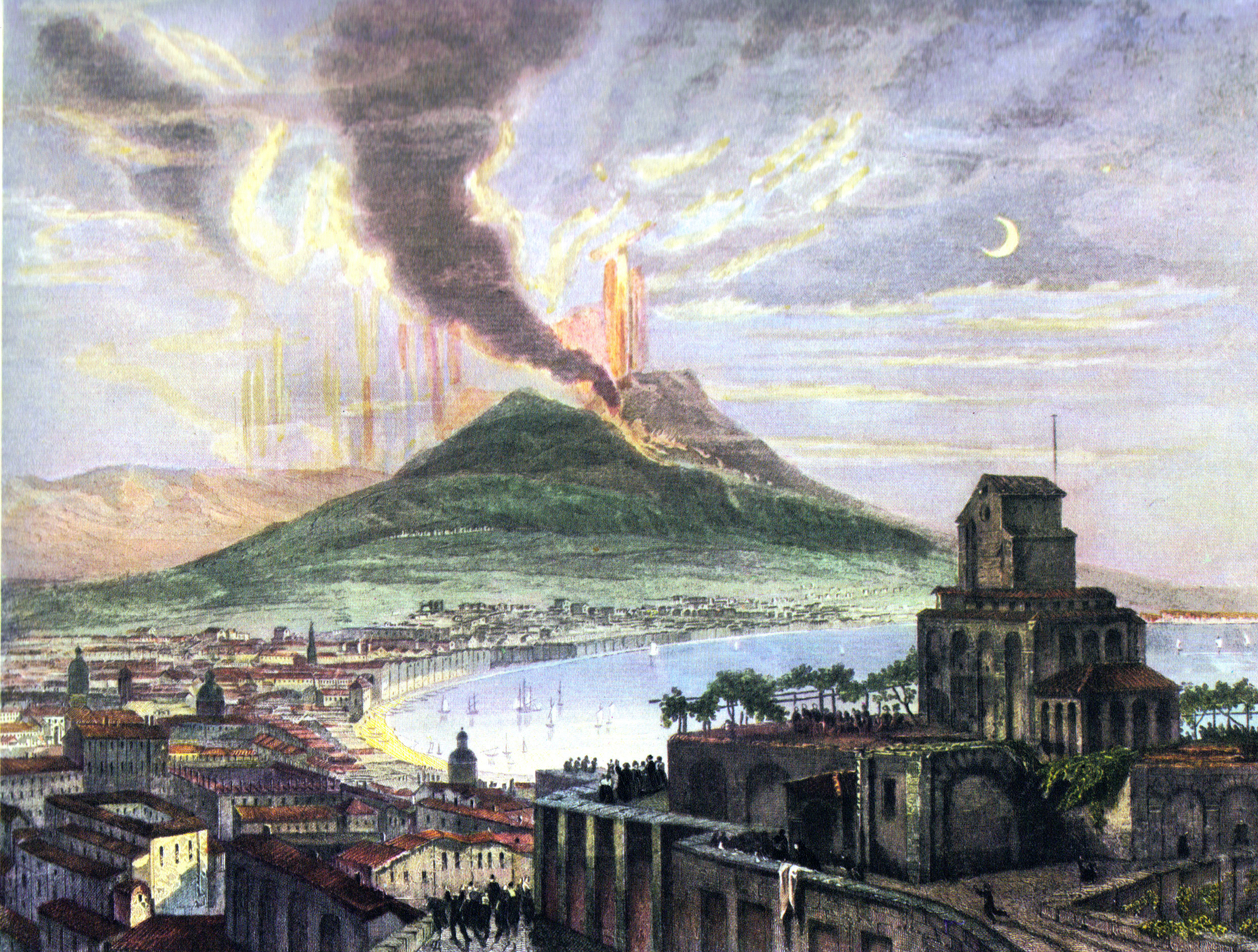 Mount Vesuvius near Naples 1858. Unknown artist.